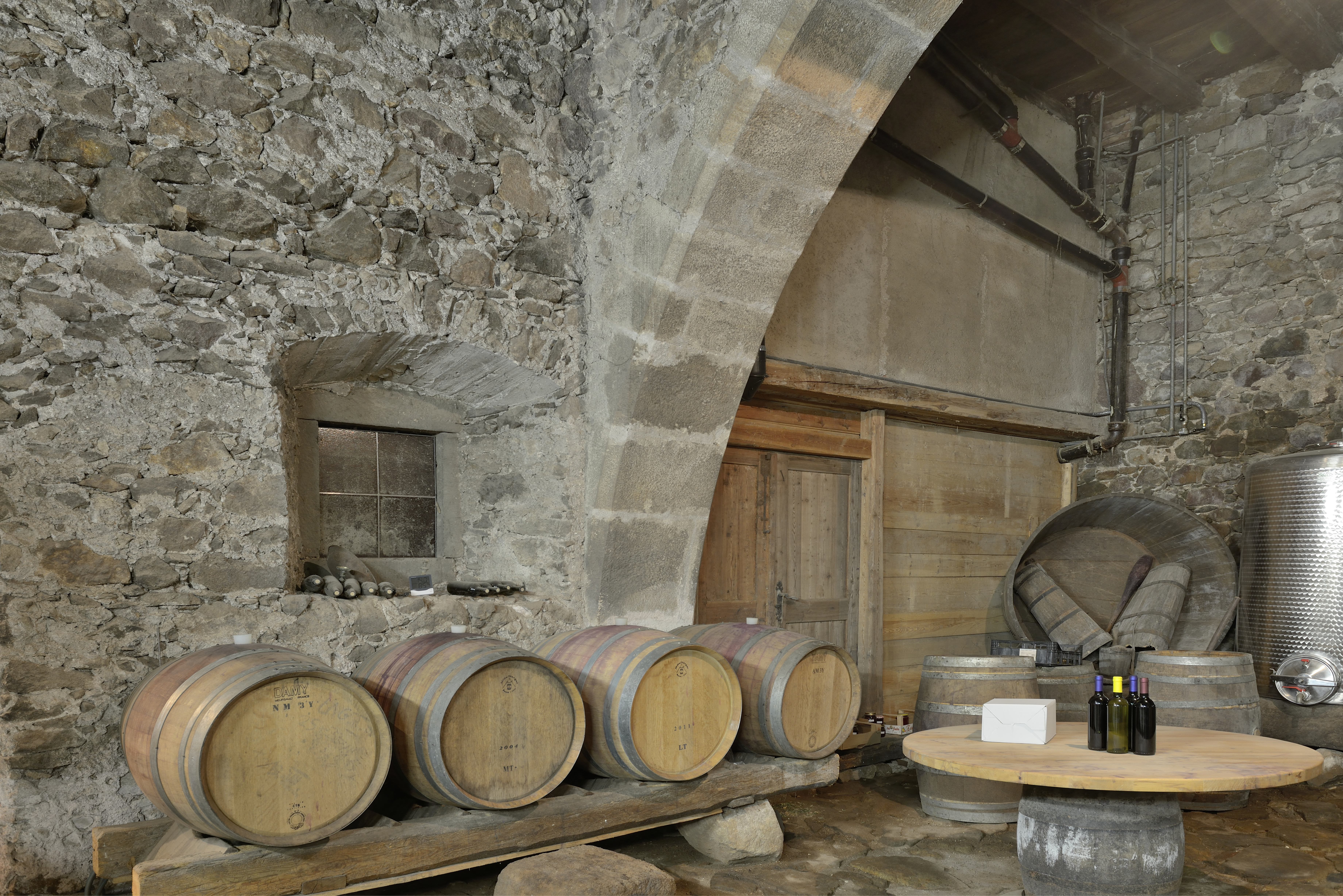 Wine cellar in the farmhouse Verant in Völser Aicha